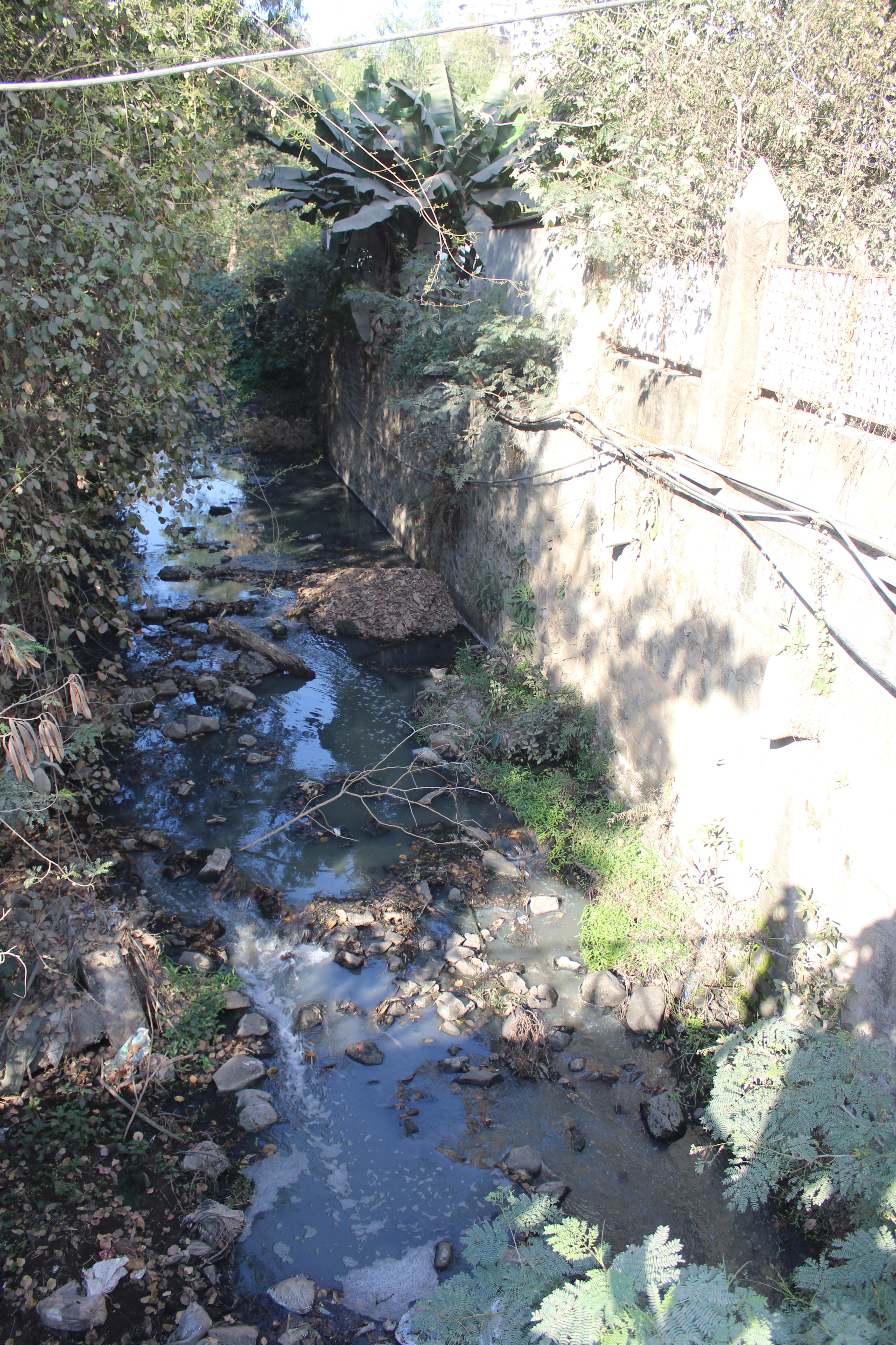 Encraochment & Pollution on Ramnadi near Windmill Apartment, Bhugaon